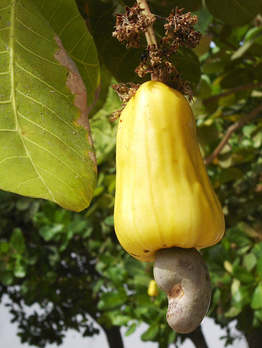 A cashew fruit and accessory fruit in the town of Prainha near Fortaleza, Ceará, Brazil.